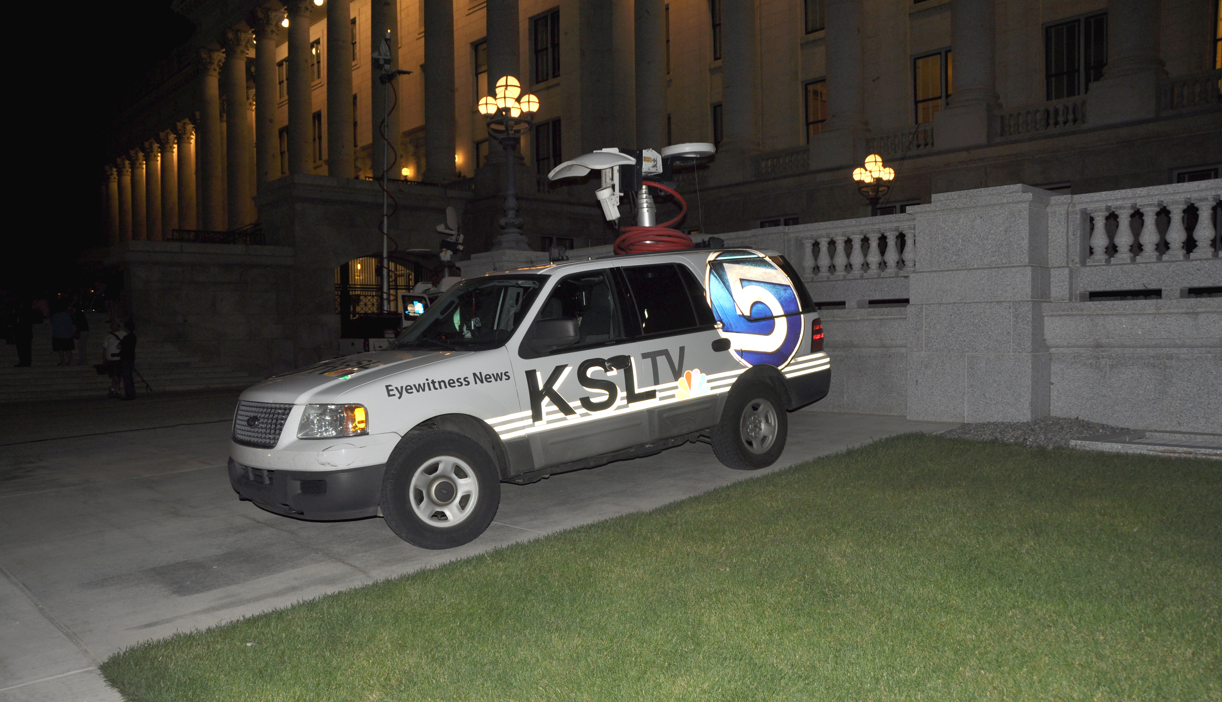 News media van from KSL-TV at the Utah State Capitol covering the protest against the execution by firing squad of Ronnie Lee Gardner.